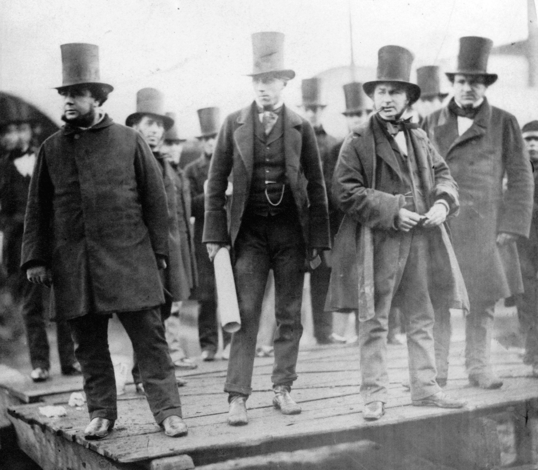 Isambard Kingdom Brunel at the Launching of the SS Great Eastern (sometimes called Leviathan) with John Scott Russell and Lord Derby.